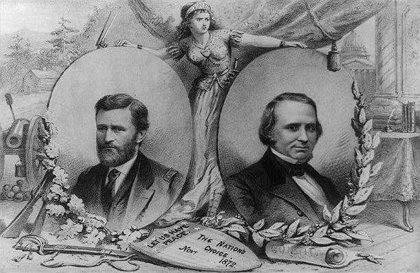 Print shows a campaign banner for the 1872 Republican national ticket. The armored figure of Liberty stands between portraits of presidential candidate Ulysses S. Grant and running mate Henry Wilson. Grant's portrait is adorned with oak leaves and Wilson's with olive or laurel branches. On the left are military paraphernalia associated with Grant--rifles, a cannon, and a sword. Beyond is a log cabin. On the right are a writing desk and the Constitution. In the distance is a view of the U.S. Capitol. Below, before the two portraits, is a shield inscribed "Let Us Have Peace. The Nation's Choice. Novr. 1872." "Let us have peace" were the closing words in Grant's May 29, 1868, letter accepting his first presidential nomination. The phrase became a Republican slogan for both the 1868 and 1872 elections.